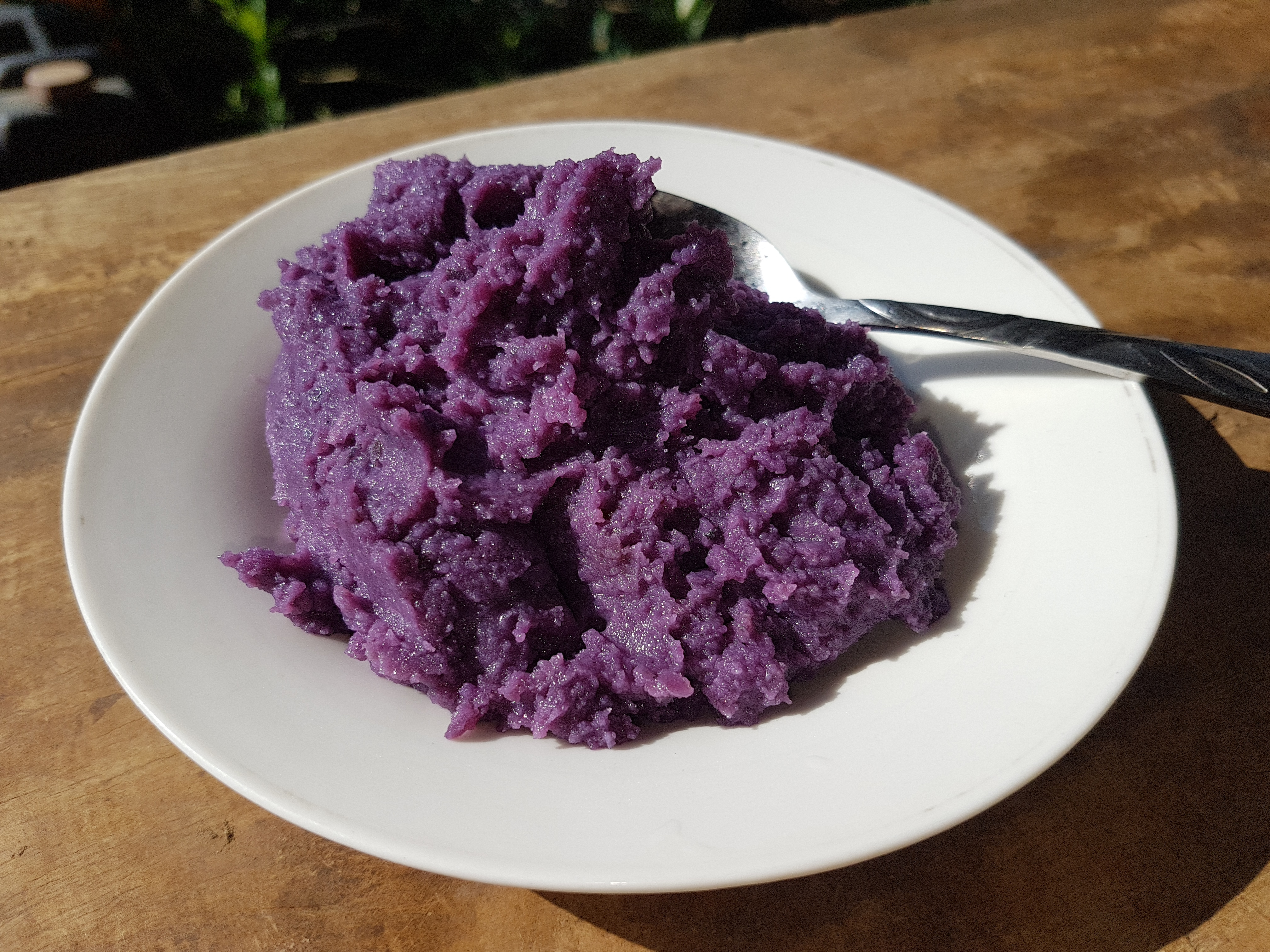 Ube halaya - mashed purple yam